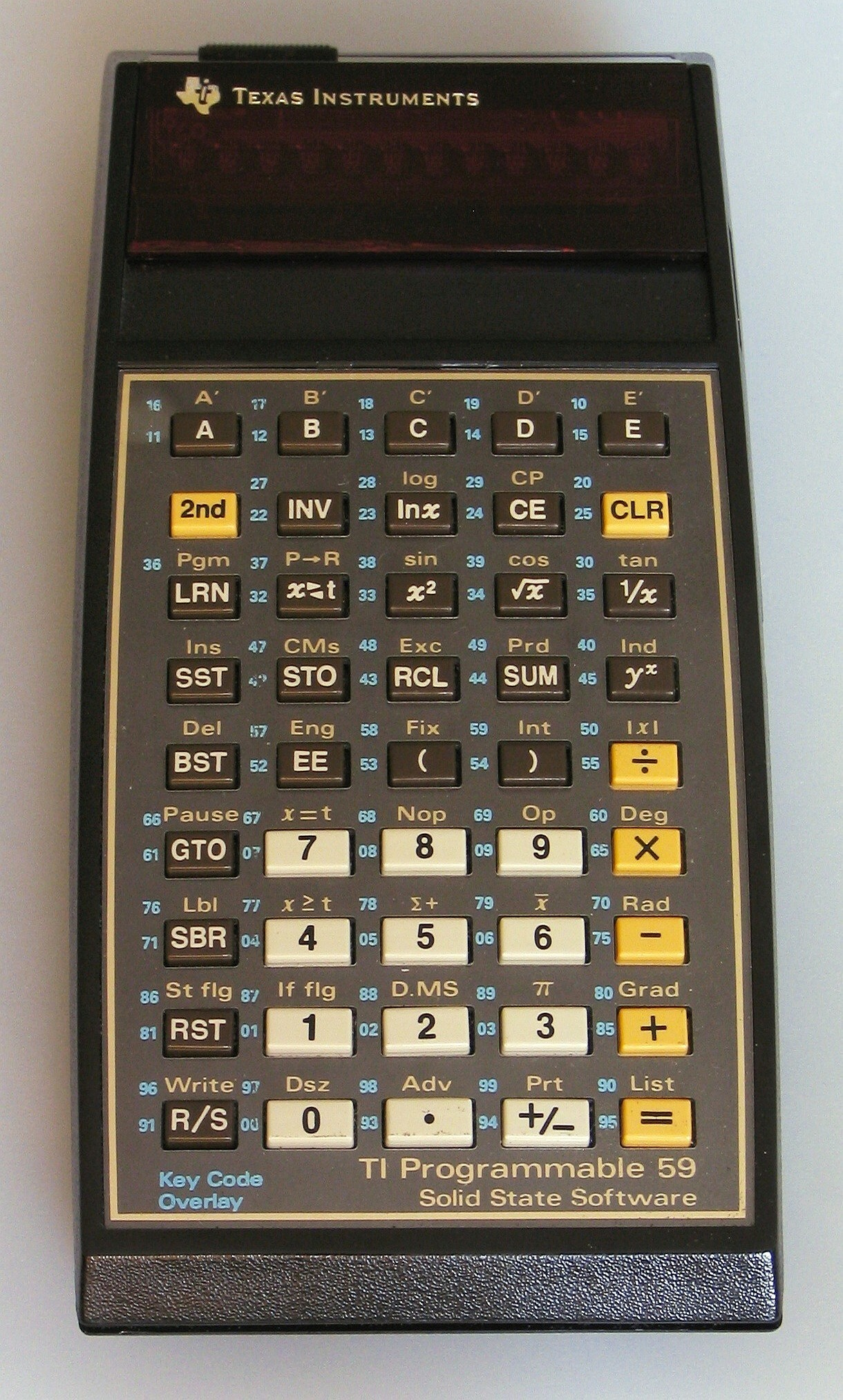 TI-59 with Keyboard Overlay - front view Česky: TI-59 s fólií s kódy tlačítek.